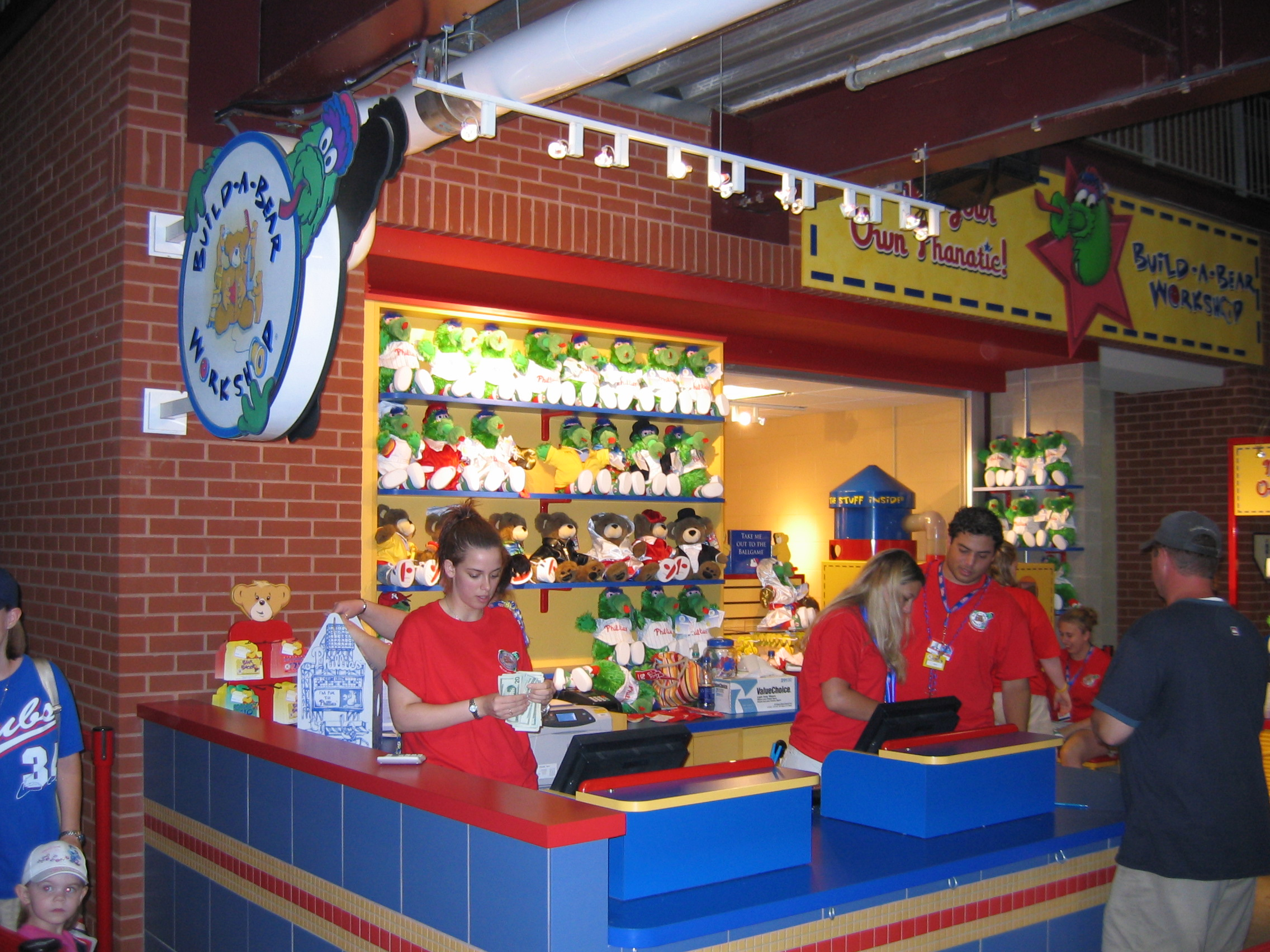 This is a picture of the "Build a Bear" shop at Citizens Bank Park in Philadelphia; taken during the park's opening year.